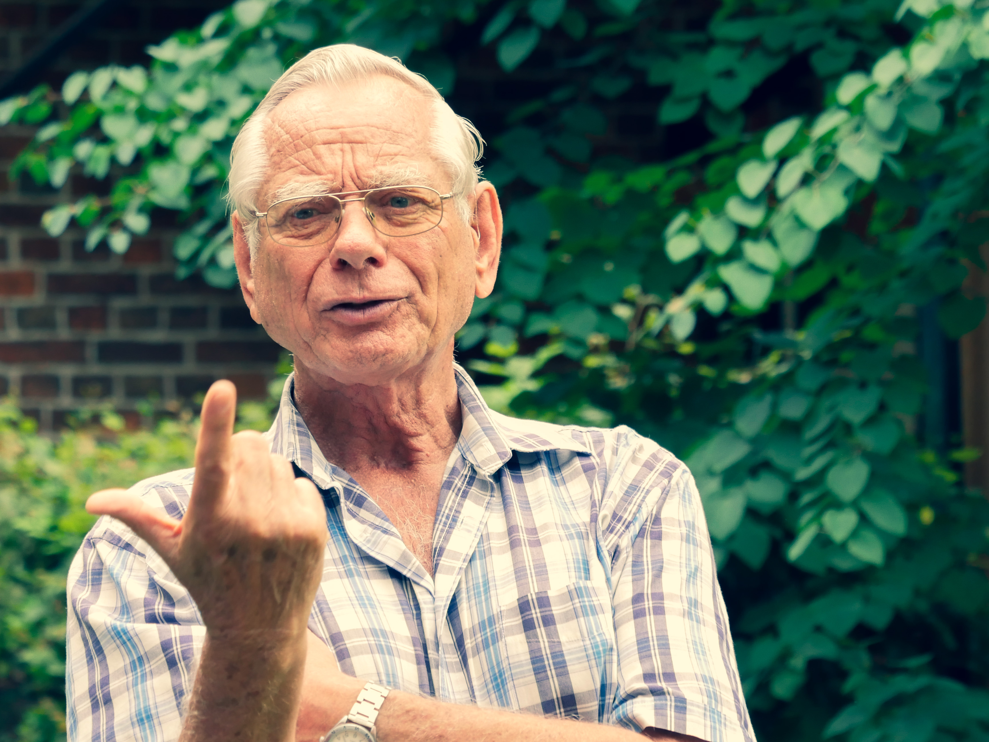 Peter Deicke, Portrait (2017)